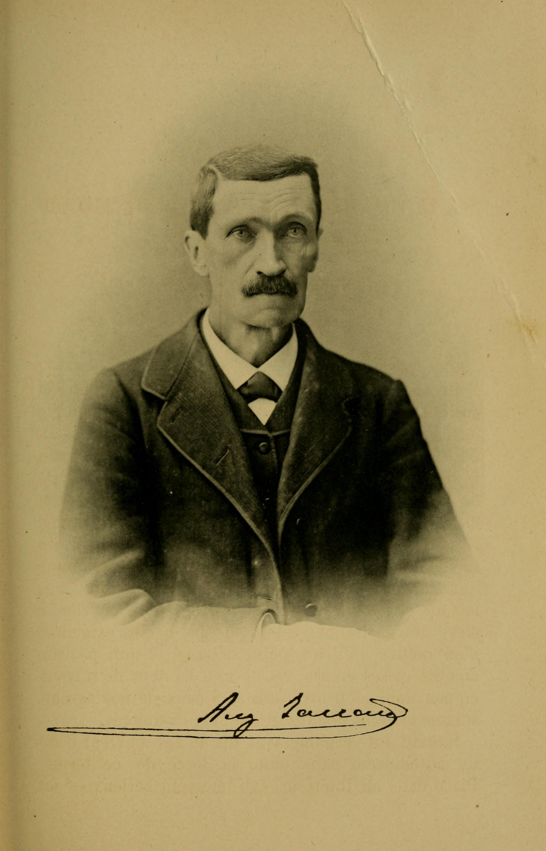 Auguste Jaccard Title: Bulletin de la Soci des sciences naturelles de Neuchl Year: 1844-1897. (1840s) Authors: Soci des sciences naturelles de Neuchl Subjects: Natural history; Science Publisher: Neuchl : Soci des sciences naturelles de Neuchl Text Appearing Before Image: ' Text Appearing After Image: ^^^^^^